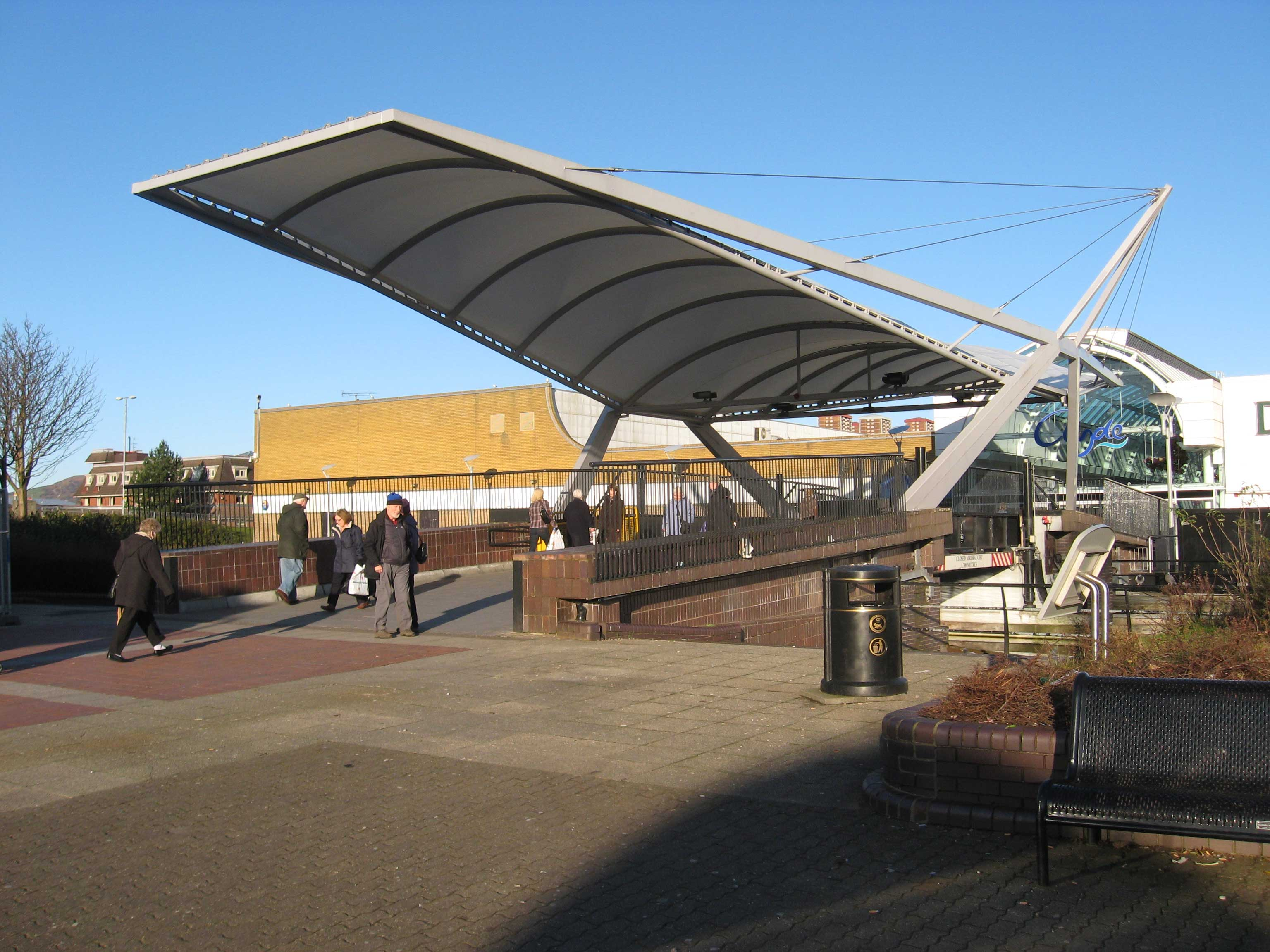 Bridge over the Forth and Clyde Canal at the Clyde Shopping Centre, Clydebank.